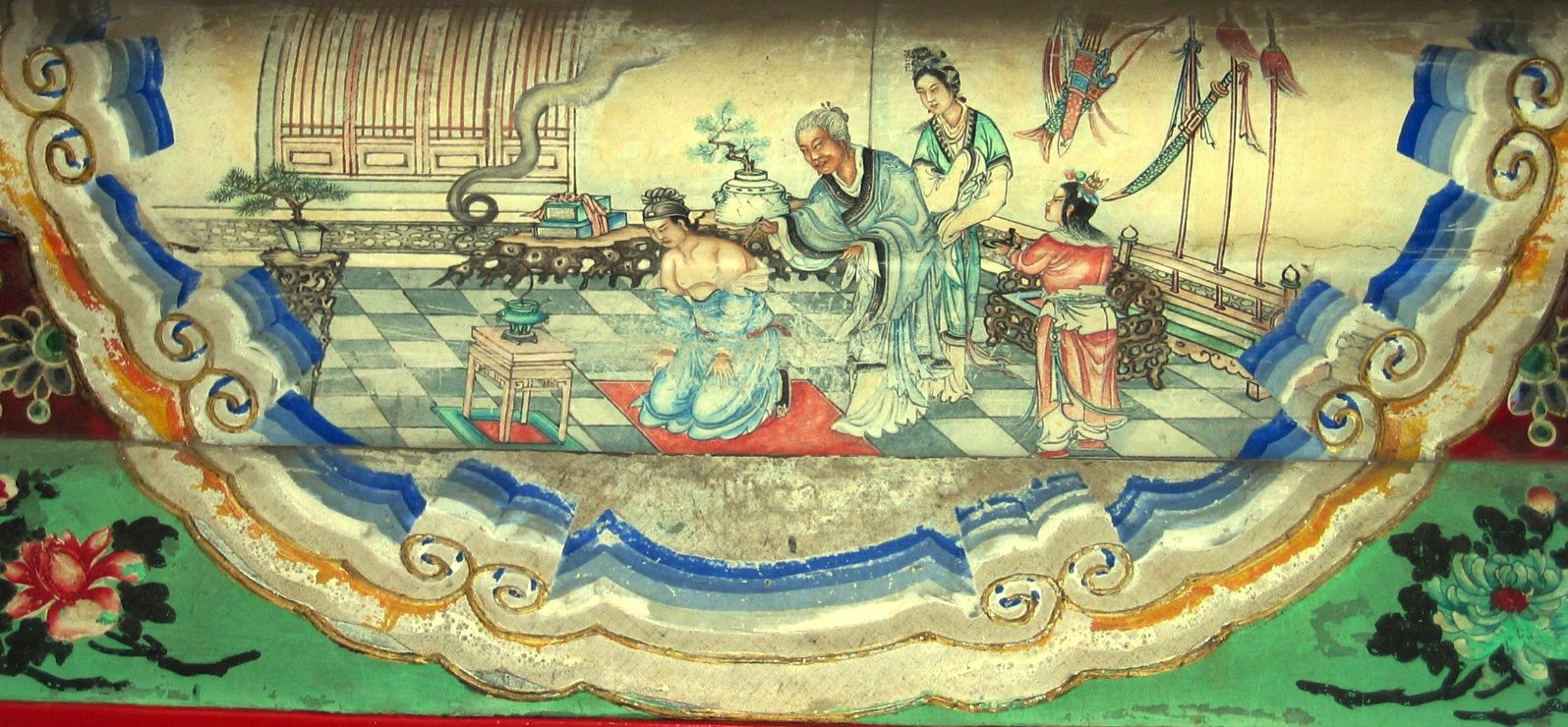 Painting of a subject from the legend of Yue Fei, in which his mother writes the characters jīng zhōng bào gúo (serve the country loyally) on his back before he left home. The painting is a decoration of the Long Corridor in the Summer Palace, Beijing, China. The photograph was taken by Rolf Müller on April 17, 2005.